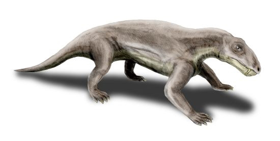 Biarmosuchus tener, a late permian therapsid from Russia, pencil drawing